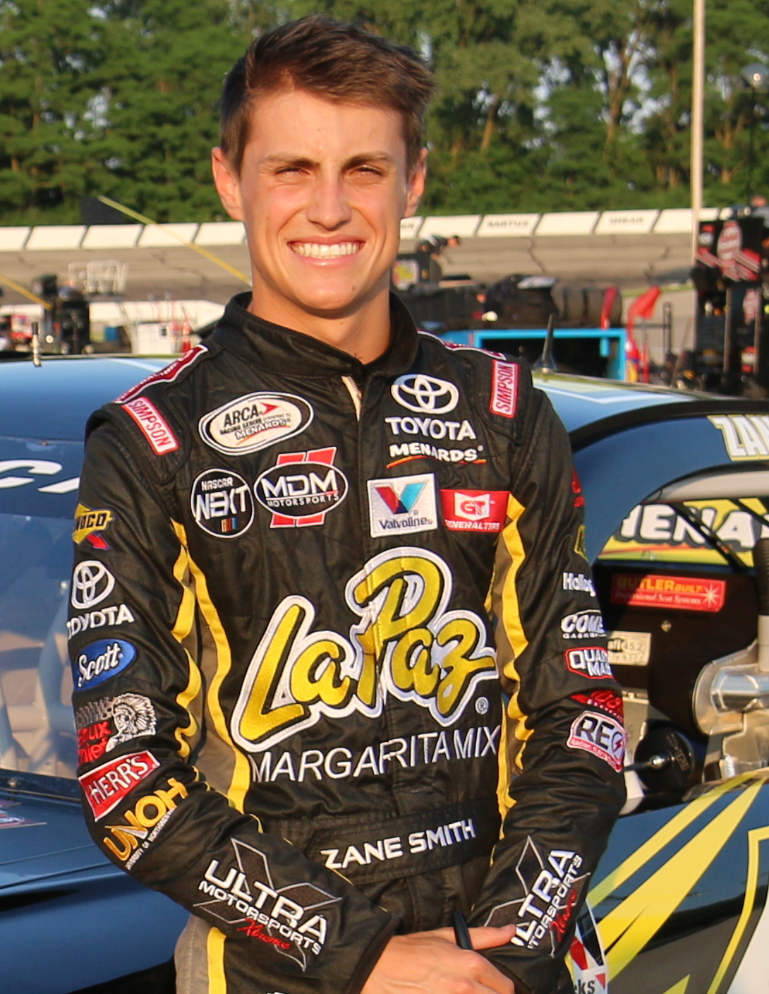 ARCA driver Zane Smith posing for a photograph at Madison International Speedway.